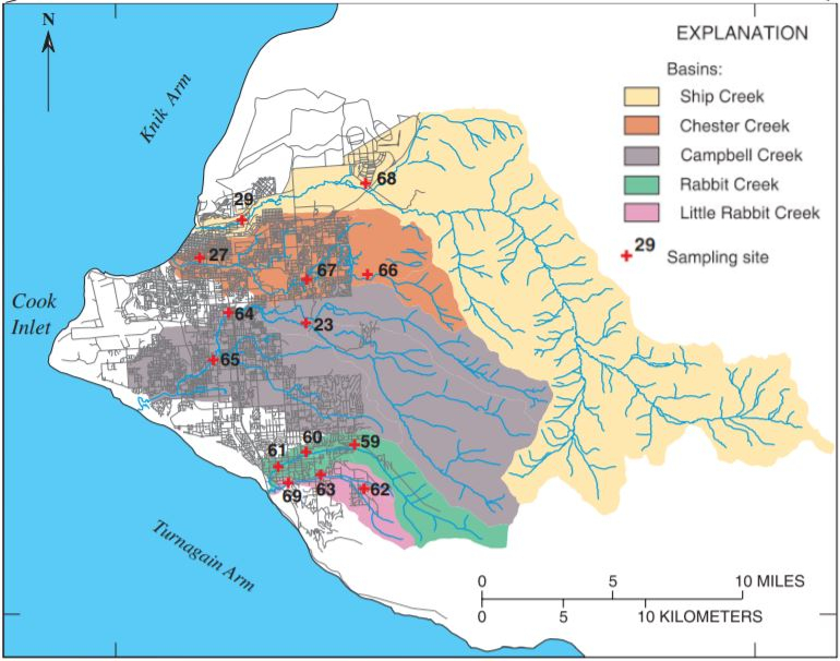 This file shows waterways in Anchorage, Alaska and their corresponding watersheds. It was adapted from a USGS report with the only alterations being movement of the legend into the top right corner and cropping of lat-long ticks. This image is in the public domain in the United States because it only contains materials that originally came from the United States Geological Survey, an agency of the United States Department of the Interior. For more information, see the official USGS copyright policy.